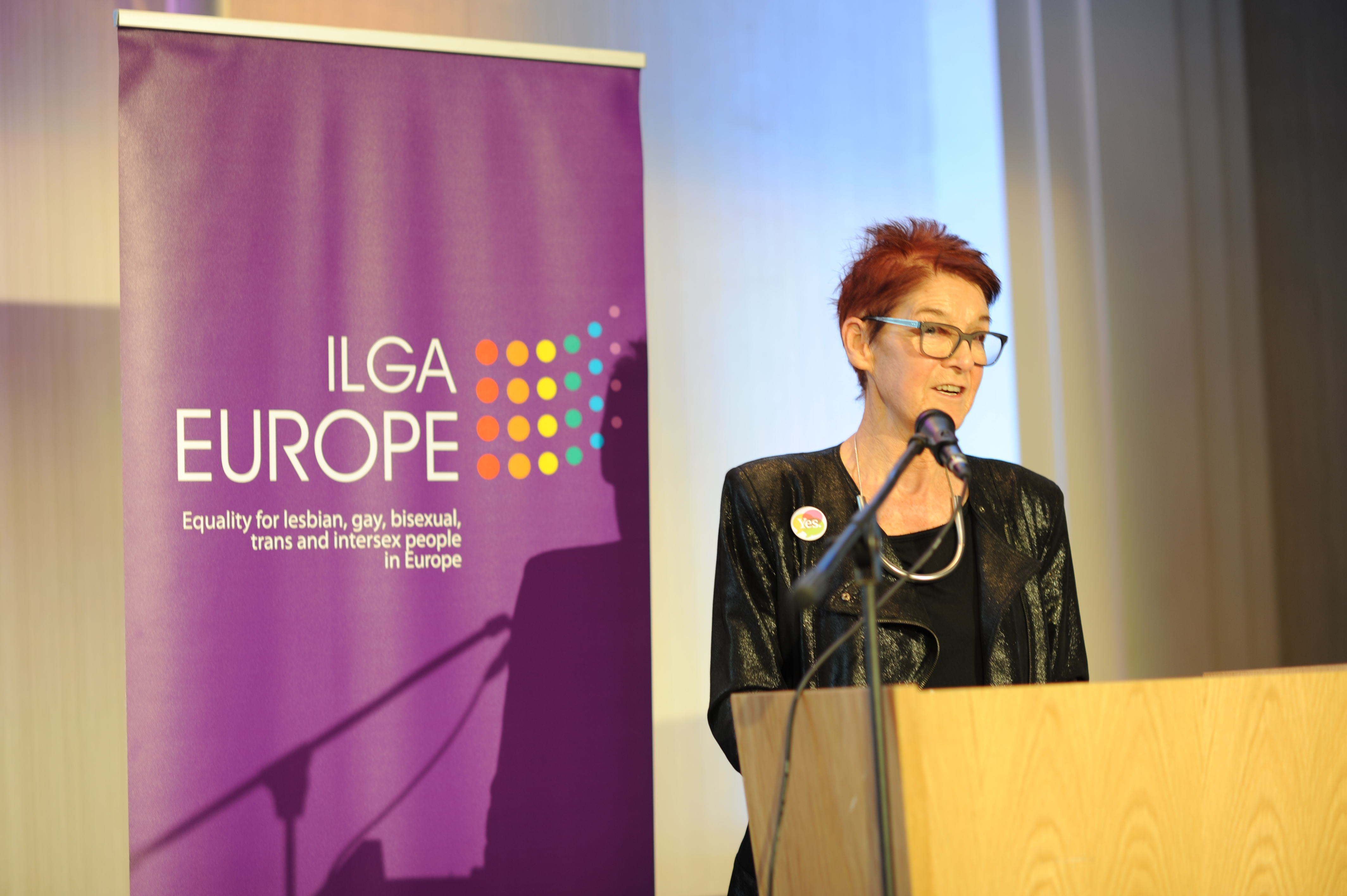 Ailbhe Smyth at ILGA Conference holding a talk on QueerEd